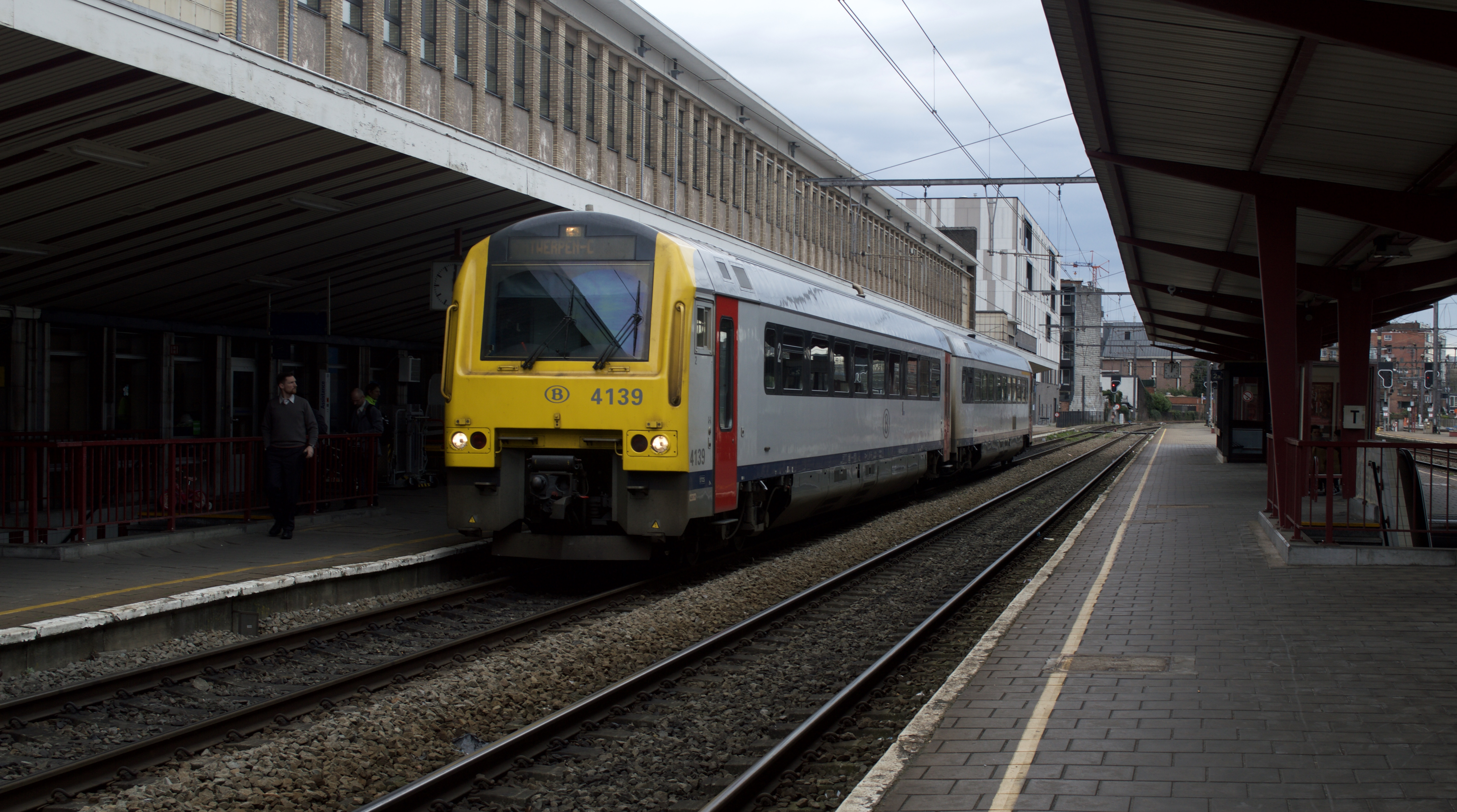 3 April 2018 sees 2-car class 41 before departure at Hasselt with train IC4433, 12:08 Hasselt to Antwerpen Centraal via Mol.